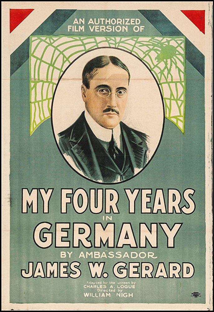 This is a poster for the 1918 film My Four Years in Germany.